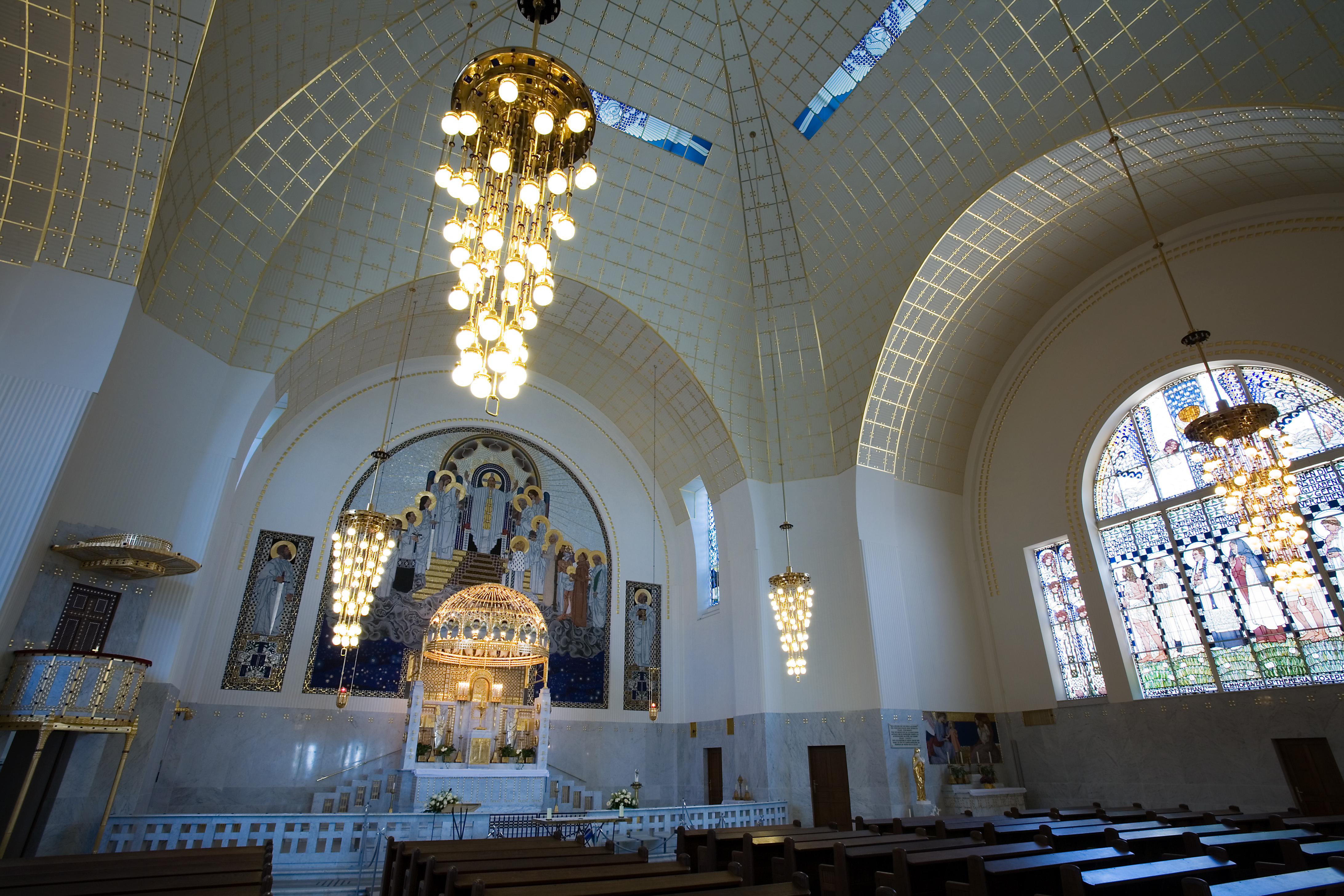 Otto Wagner's St Leopold Church, Vienna, Austria